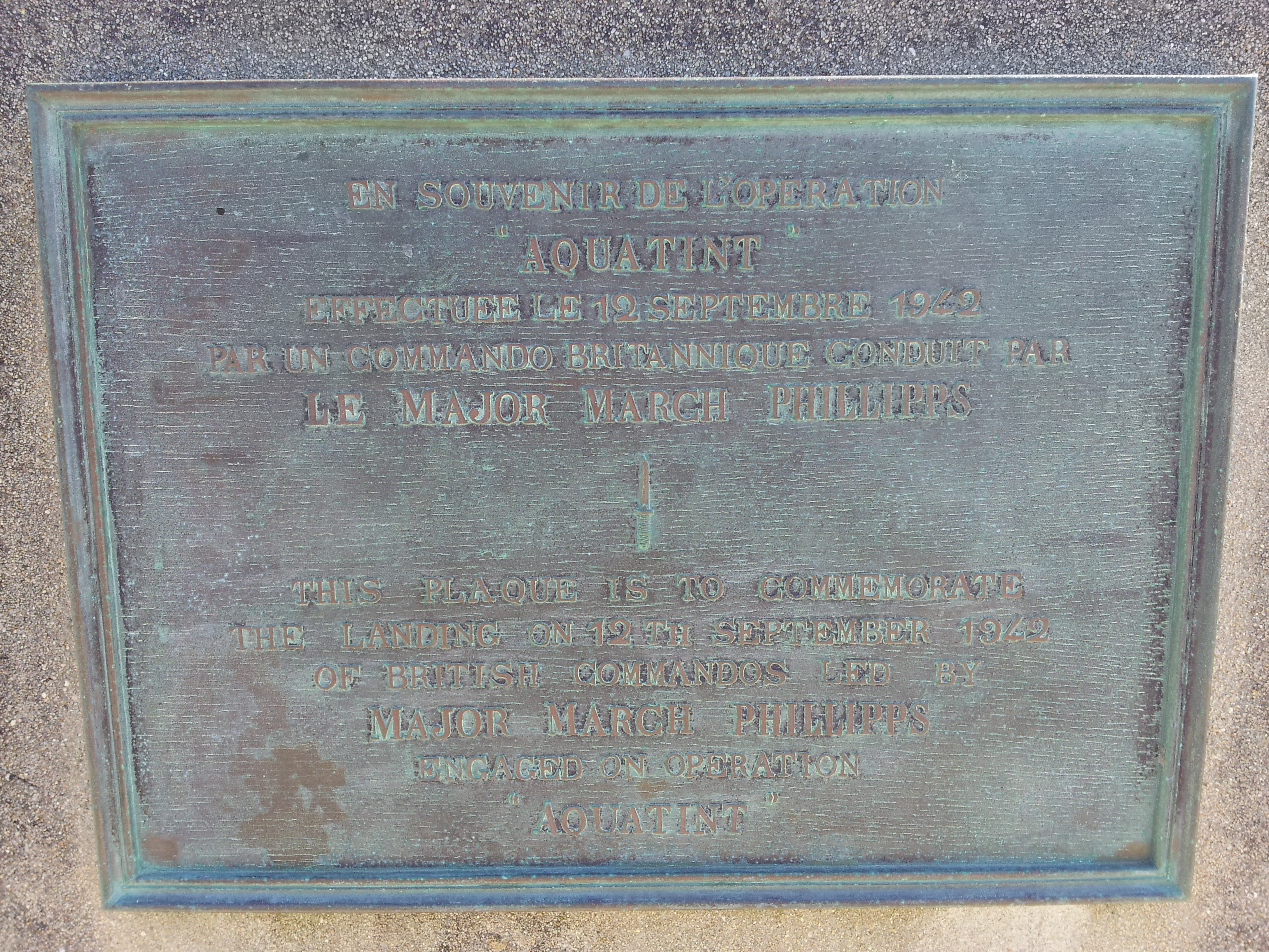 Marker on Omaha Beach for the British operation Aquatint (September 1942) lead by Major March Philipps